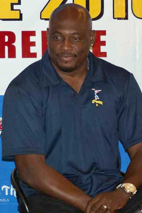 Mitch Richmond, at the NBA Asia Challenge 2010 in the Philippines